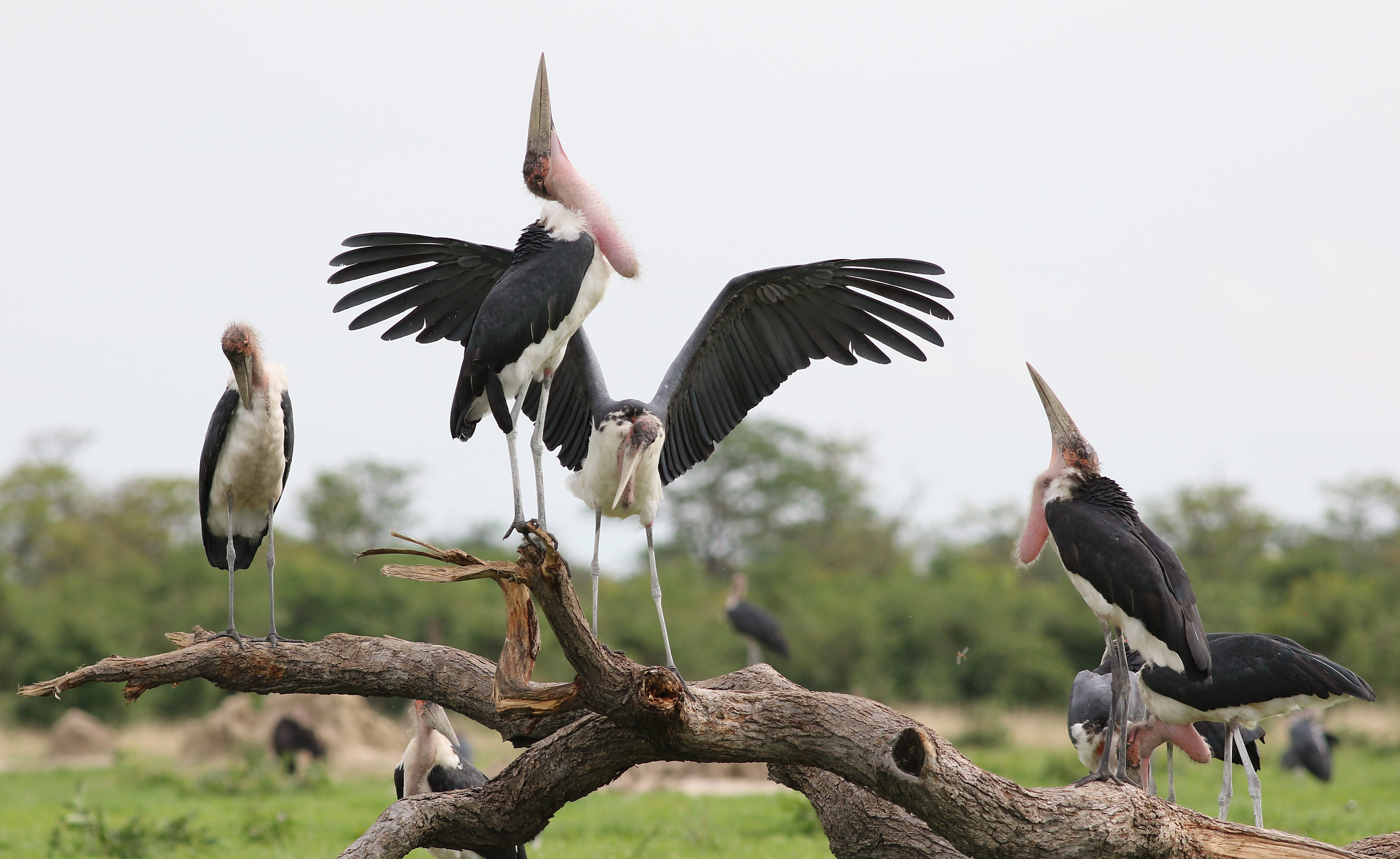 Marabou Stork, Leptoptilos crumeniferus, at the aptly named Marabou Pan, Savuti, Chobe National Park, Botswana